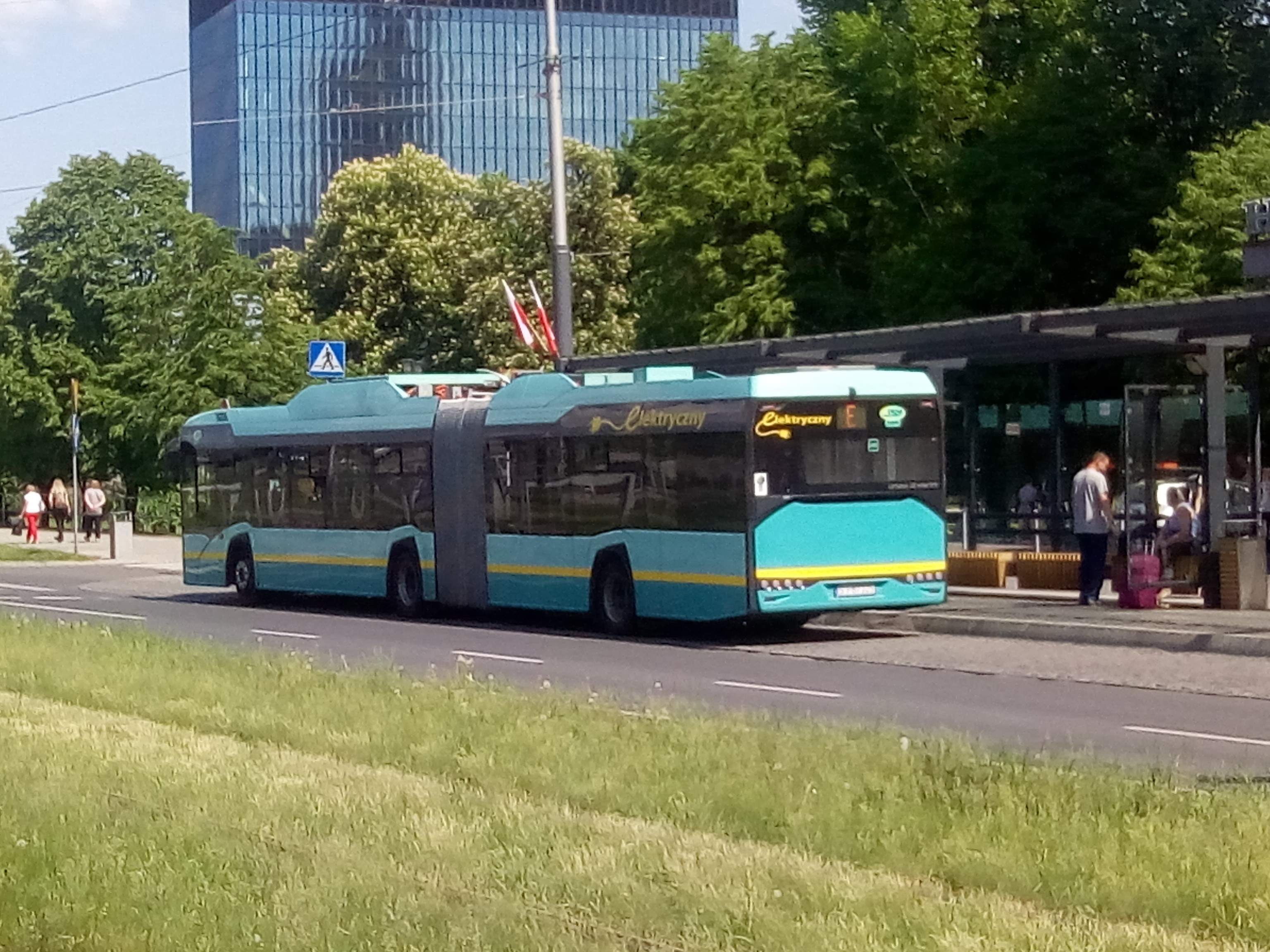 Solaris Urbino 18 electric which belongs to PKM Jaworzno in Katowice (line E)